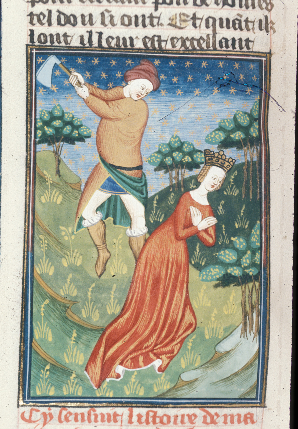 Mariamne from BL Royal 16 G V, f. 99v | Giovanni Boccaccio Detail of a miniature of Mariamne, the wife of Herod the Great, being slain with an axe. Image taken from f. 99v of De claris mulieribus in an anonymous French translation (Le livre de femmes nobles et renomées). Written in French. British Library Royal Collection BL Royal 16 G V f. 99v Gothic